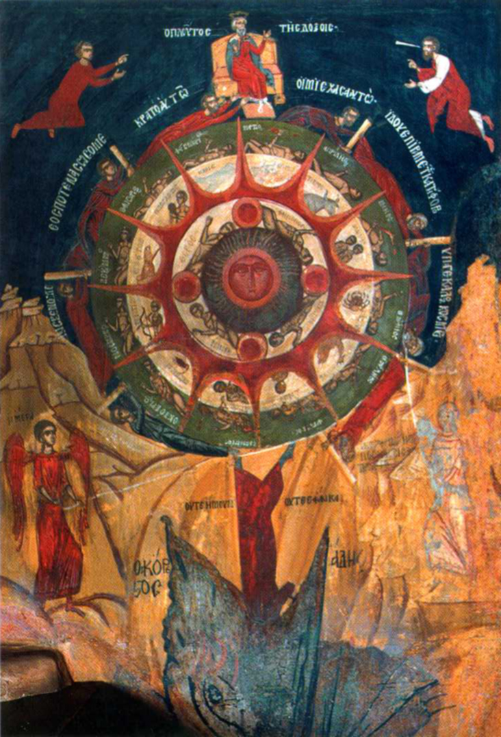 Fresco "Wheel of Life" (1649). Nativity Church, Arbanassi.